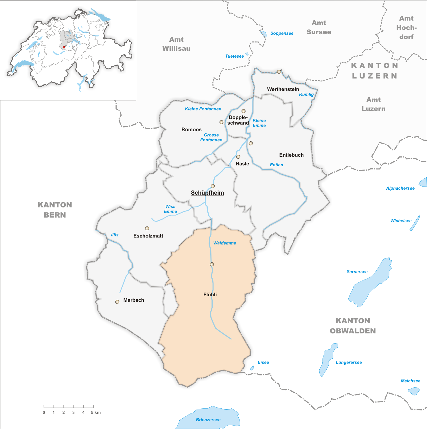 Municipality Flühli